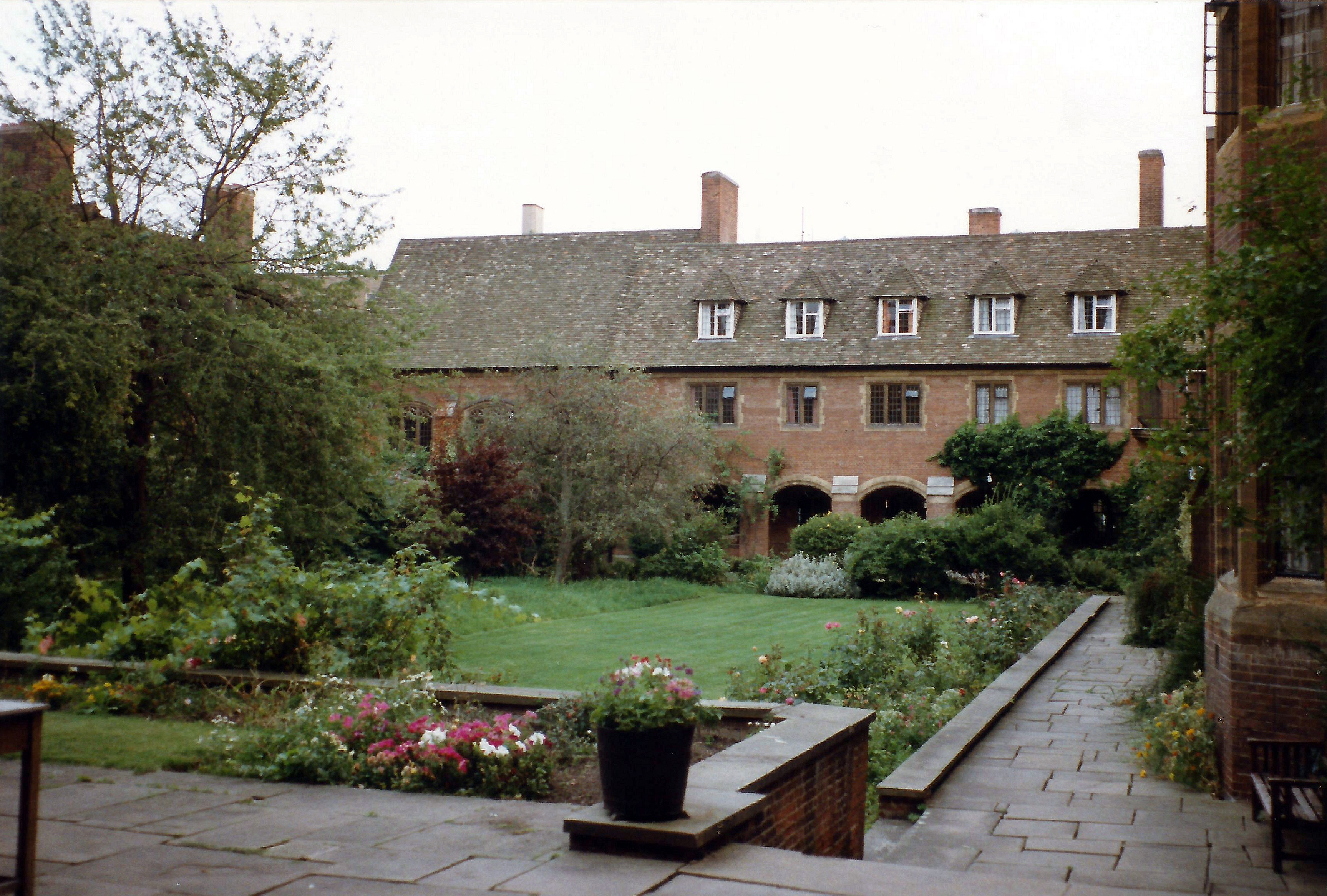 The quad of Westcott College, Jesus Lane, Cambridge, UK.